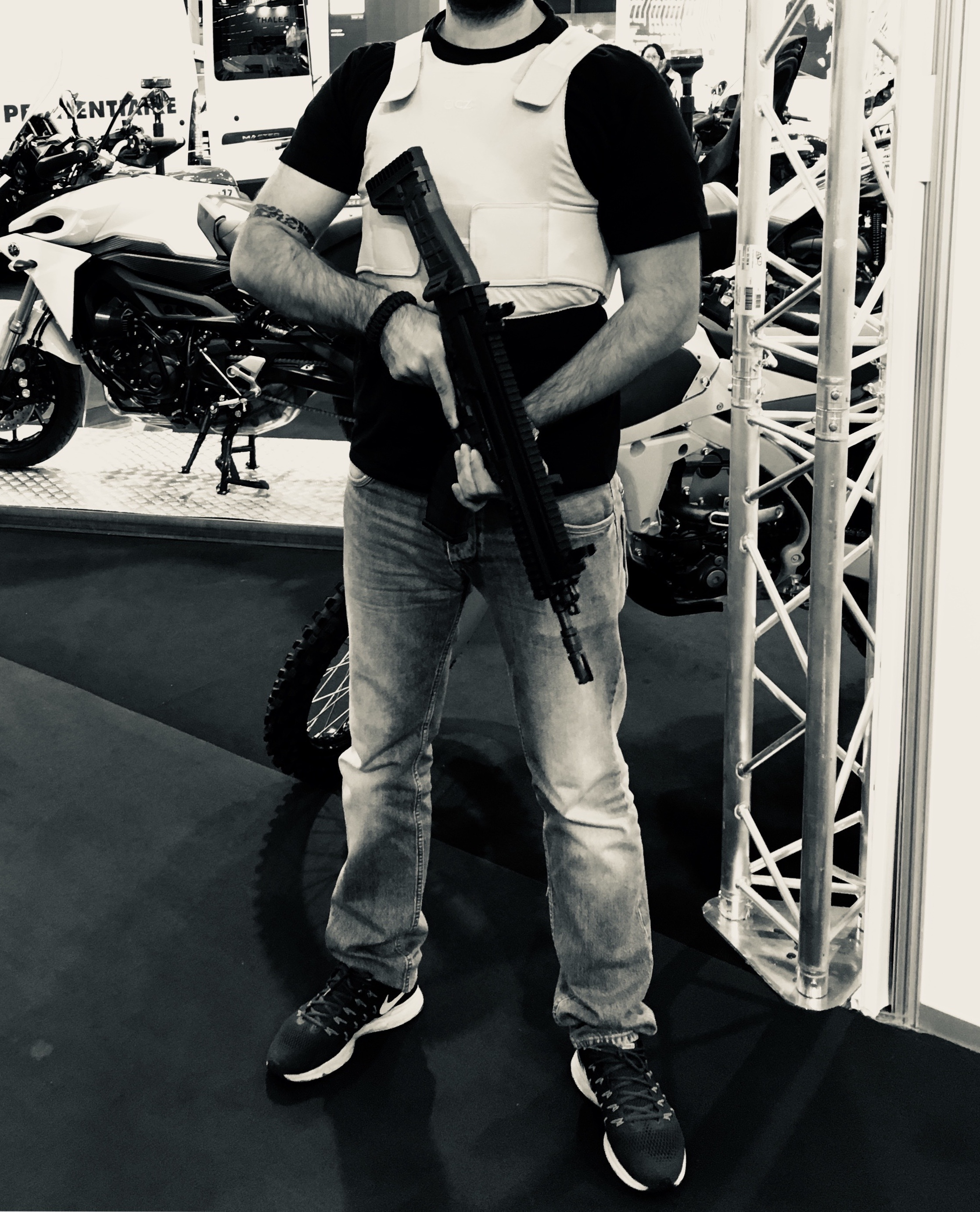 Subject equipped with CZ 4M VIP concealed vest and CZ BREN 2 at Milipol 2017